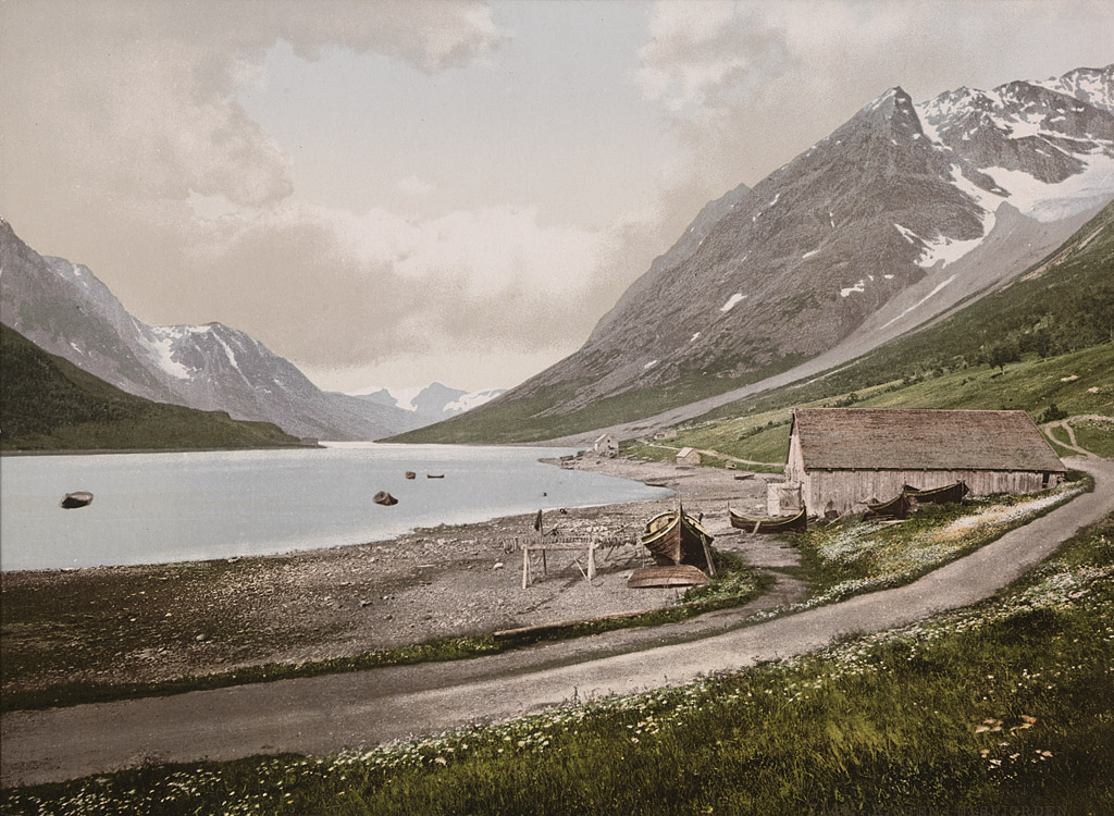 Tittel / Title: 7146. Kjosen i Ulsfjorden Dato / Date: ca 1890-1900 Fotograf / Photographer: ukjent / unknown Sted / Place: Troms, Tromsø, Kjosen Eier / Owner Institution: Nasjonalbiblioteket / National Library of Norway Lenke / Link: Bildesignatur / Image Number: bldsa_FA0707